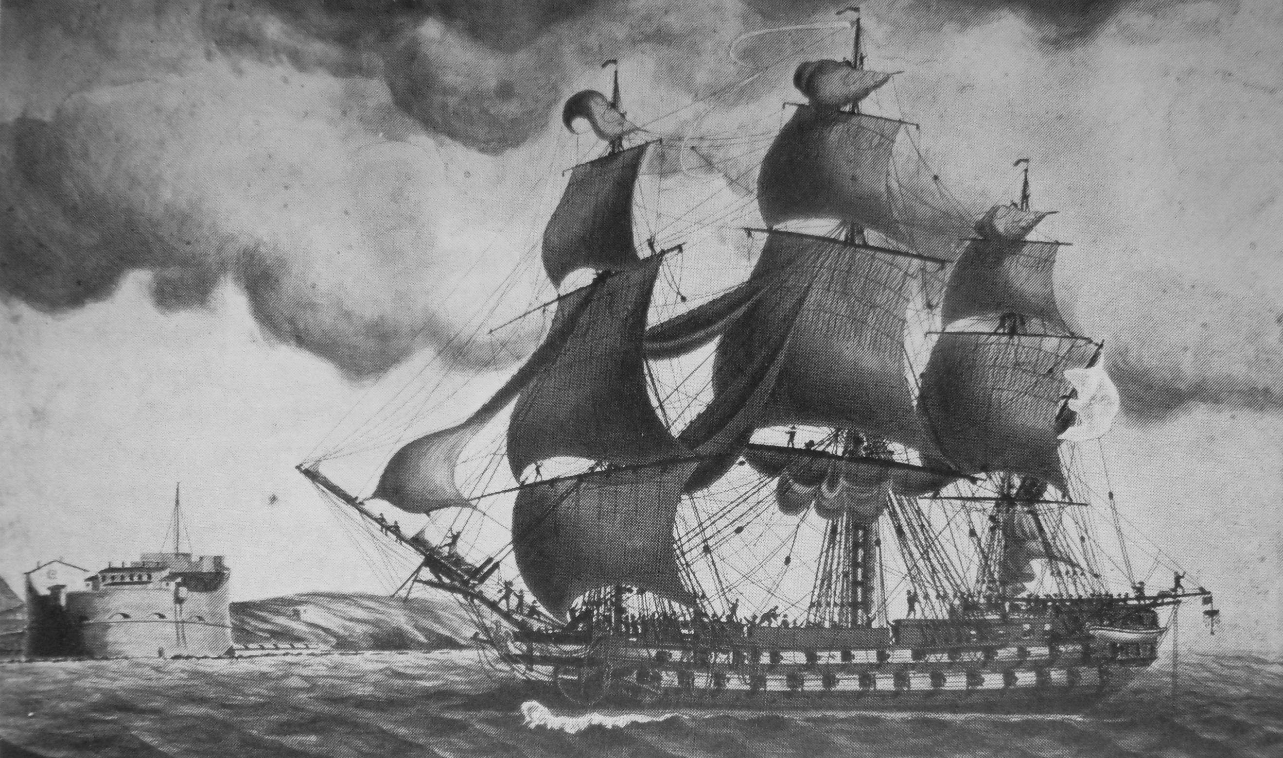 French school-ship Duquesne (ex-russian ship-of-the line Moskva) in Toulon, Watercolour by André (Andrea) Moretti of 1812.